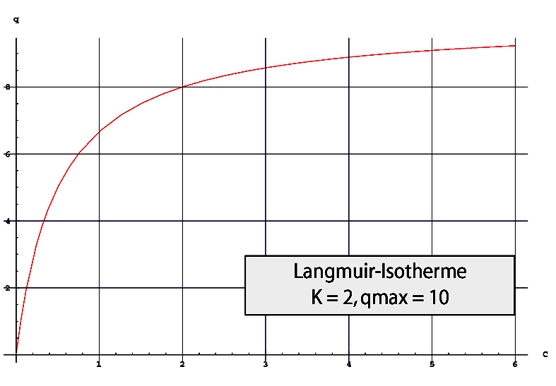 Illustrates a Langmuir sorption isotherm.